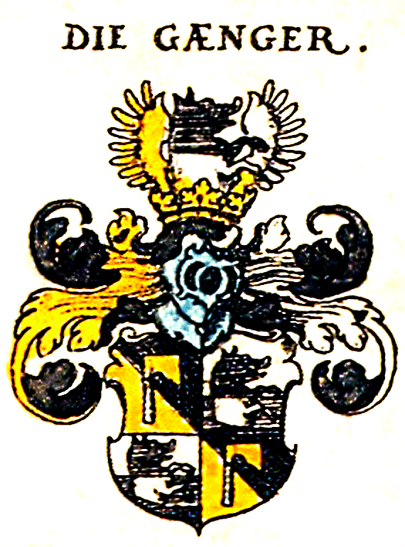 Coats of Arms of Gienger (Gaenger)